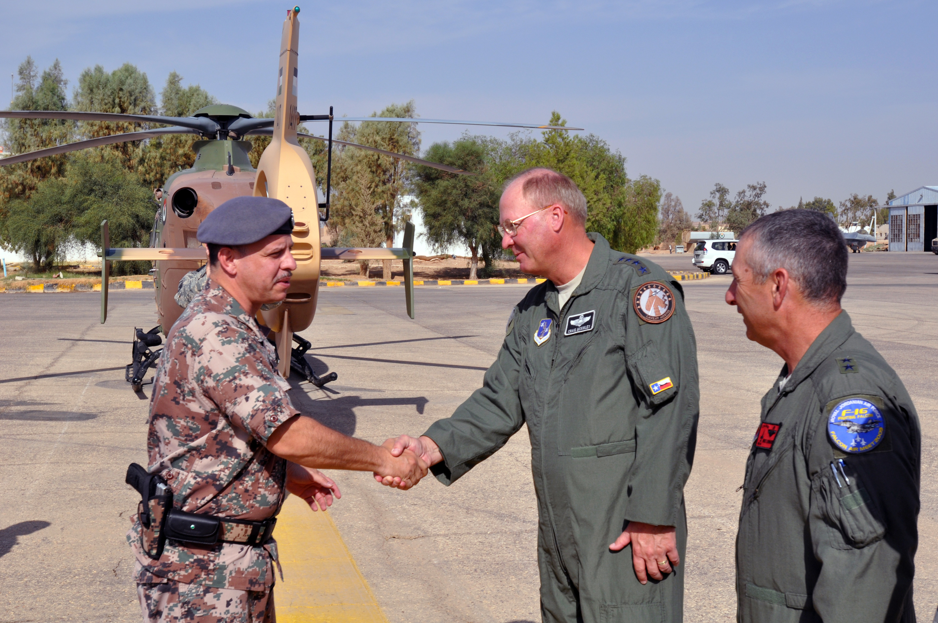 His Royal Highness Prince Feisal Ibn Al-Hussein greets Gen. Craig McKinley, the chief of the National Guard Bureau, and Maj. Gen. Howard Michael "Mike" Edwards, the adjutant general of the Colorado National Guard, upon the prince's arrival at Mwaffaq Salti Air Base, Azraq, Jordan, on Oct. 28, 2009, during the Falcon Air Meet, an annual bilateral exercise between the U.S. Air Force, the Royal Jordanian Air Force and other regional countries who fly the F-16 Fighting Falcon. The Colorado and South Carolina Air National Guards are among this year's participants.